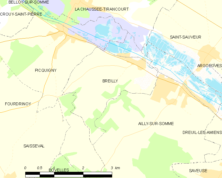 Map of French municipality Breilly